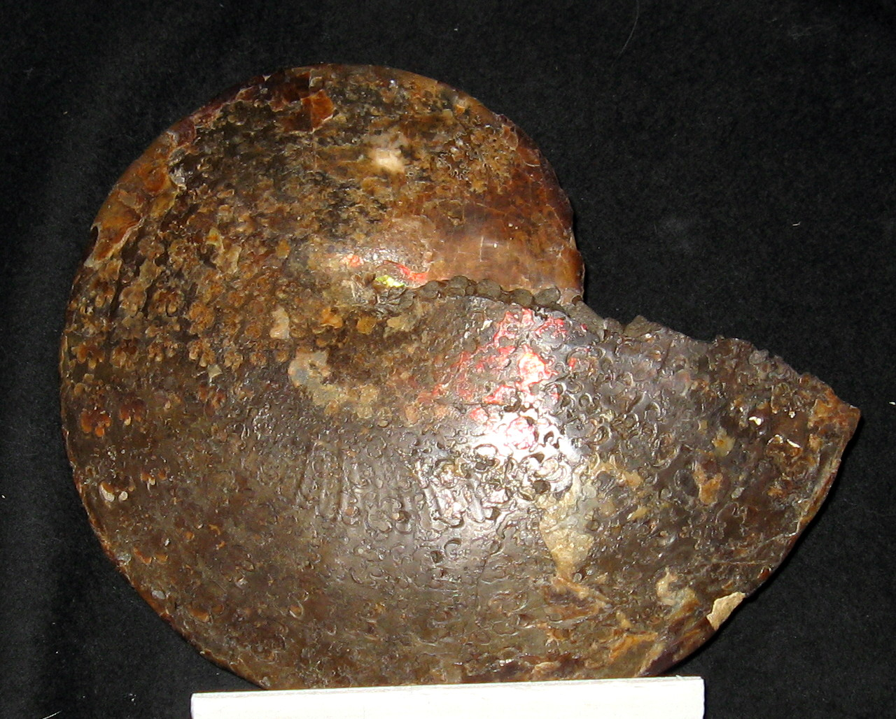 A fossil Sphenodiscus species ammonite on display at the 2009 Dino-day held at the Burke Museum, Seattle, WA.